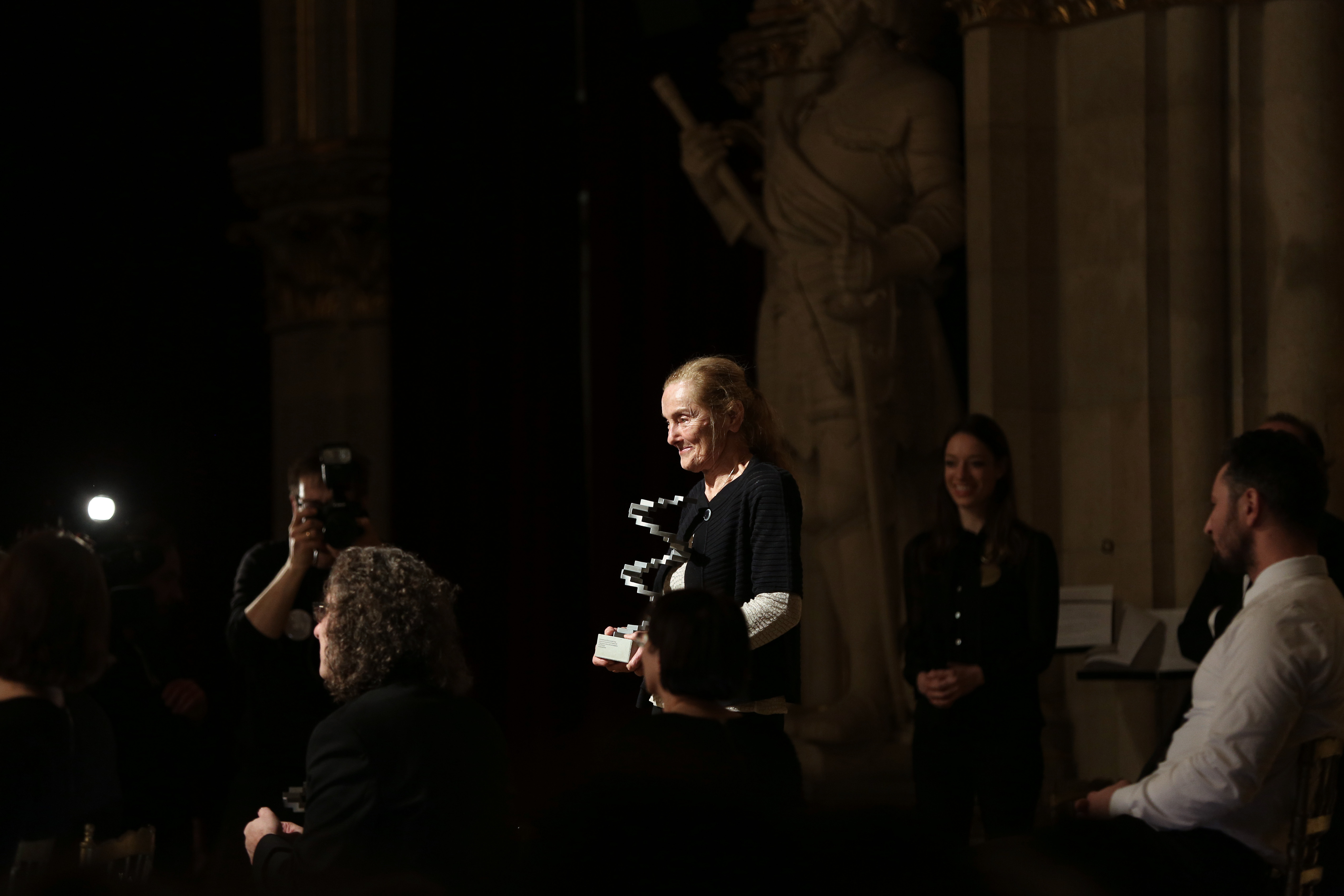 Erni Mangold (best actress in Der letzte Tanz) at the Austrian Film Awards 2015 at Rathaus, Vienna,Austria.